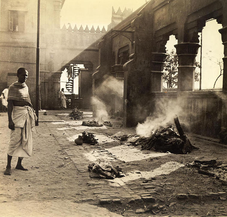 Original description:"Nimtolla burning ghat where Hindus burn the bodies of their dead and commit the remains to the Hooghly river. Several funeral pyres still burn while abandoned baby in foregroud awaits burning." The South Asia Section of the Van Pelt Library, University of Pennsylvania recently acquired from a bookdealer a photograph album consisting of 60 photographs of Calcutta taken most likely between 1945-1946. The photographer, Mr. Clyde Waddell, also provided the interesting glosses accompanying each photograph. Several attested copies of this work has emerged including one with a 'title page' held by the Southeastern Louisiana University in Hammond, Louisiana. Mr. Waddell was a military photographer. Many of his captions sound like annotations that would be found in a typical military magazine. The album begins with several general long shots of Calcutta and ends with a picture of dhobi-s (washermen) washing clothes. The text accompanying the last photograph also sounds as if the author intended to finish with that picture of one of the "great mysteries of India." The annotations have been included because of their intrinsic interest not only to the photographs but to a 'typical' American impression of India at this time.